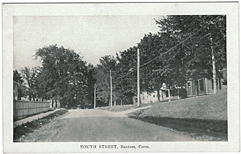 Postcard: South Street, Bantam, Connecticut, ca. 1910 Description: "An early litho postcard showing a view of South Street at Bantam, Connecticut. Circa 1910, not mailed."